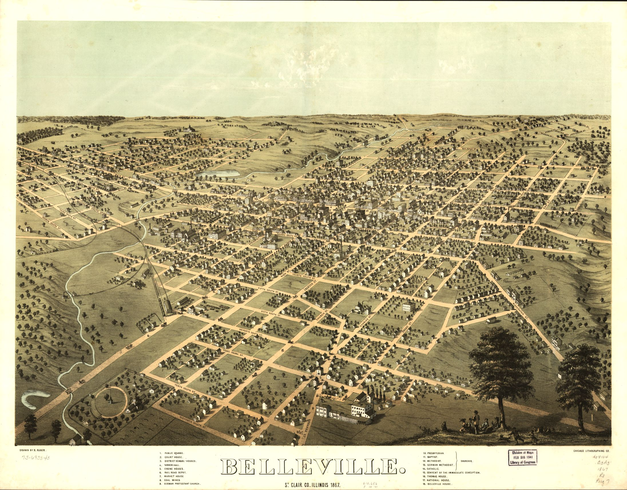 Panoramic perspective, not drawn to scale, bird's eye view of Belleville, Illinois in 1867